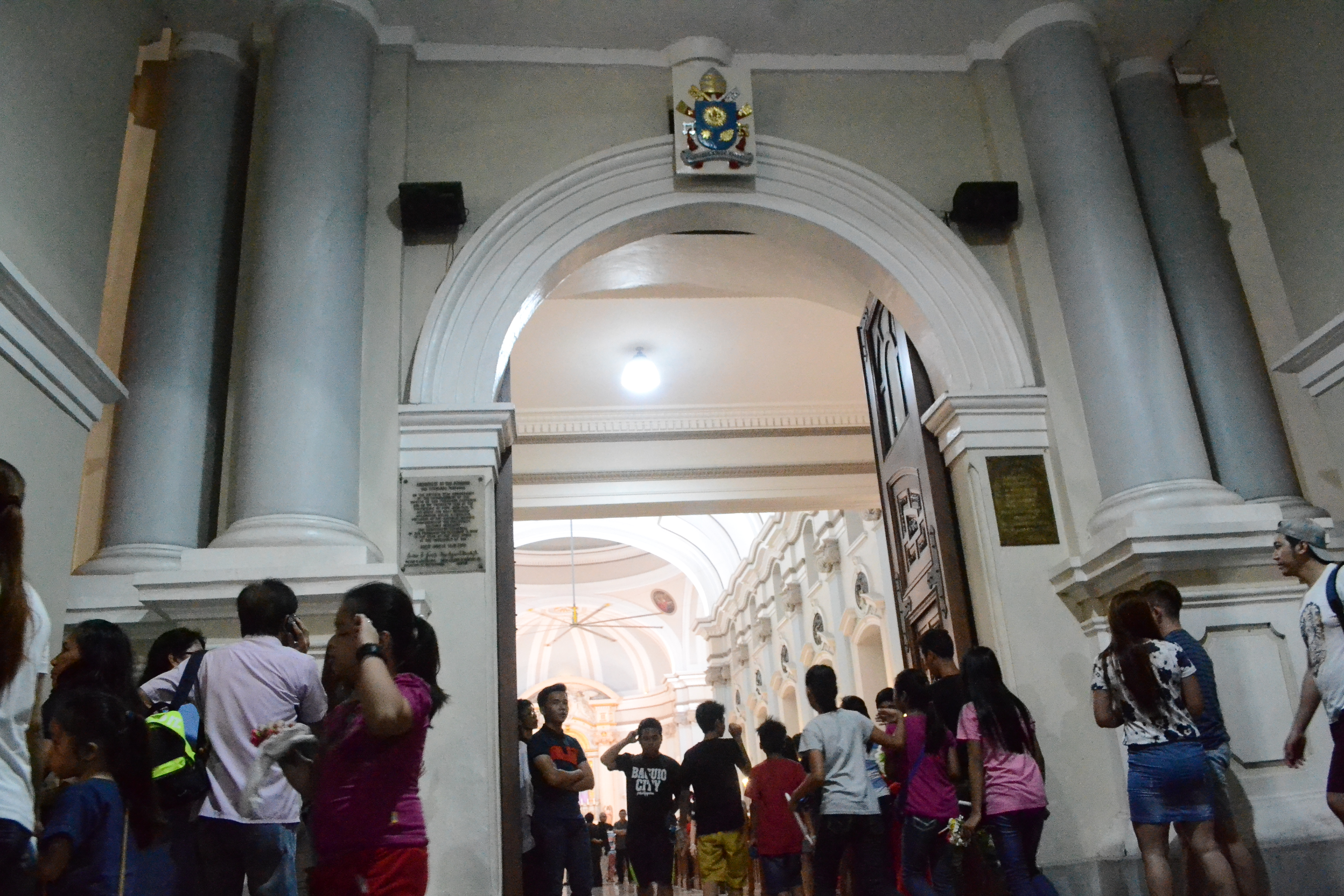 The holy door of the Metropolitan Cathedral of San Fernando consecrated for the celebration of the Extraordinary Jubilee Year of Mercy